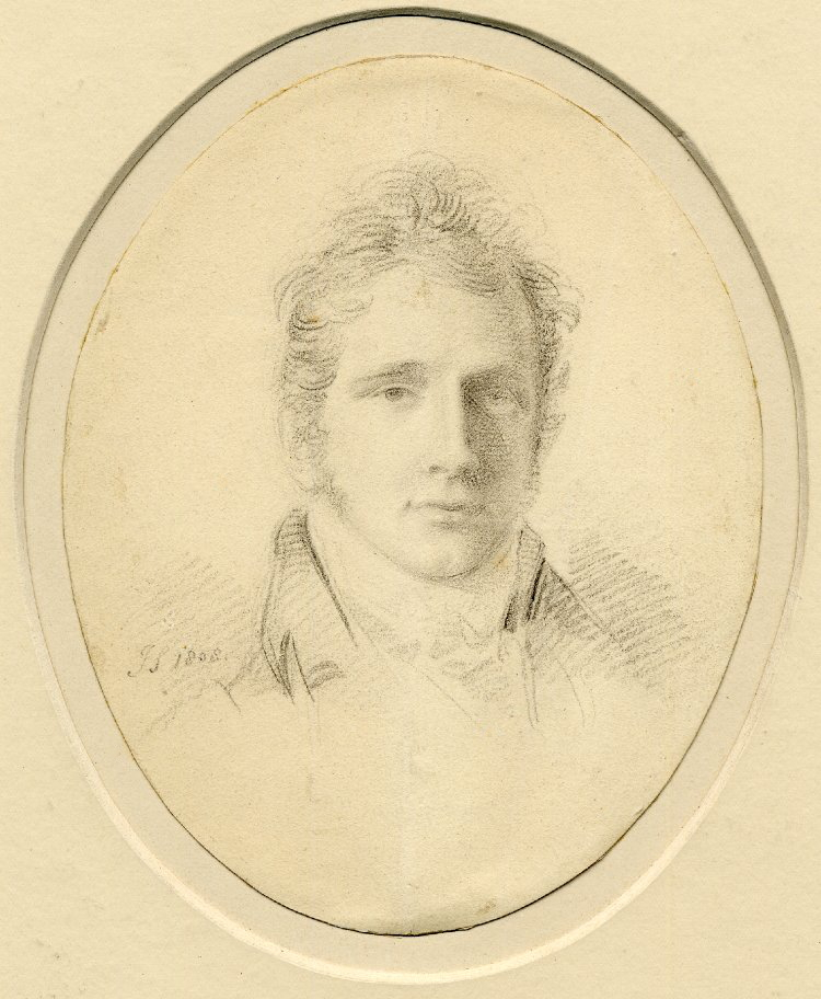 British Museum reference1920,0710.4Detailed descriptionPortrait of an unknown man; head and shoulders turned and looking to front. 1808 GraphiteSizeHeight: 17.1 cm (6.7 in) Width: 13.5 cm (5.3 in) (oval)LocationBritish Roy PV